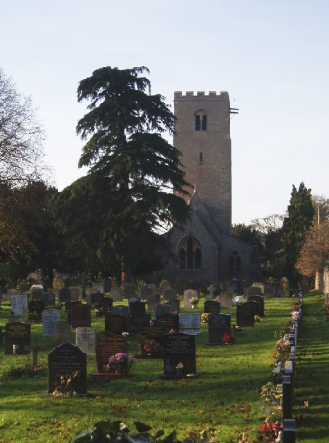 Church of England parish church of St Thomas of Canterbury, Clapham, Bedfordshire, seen from the east